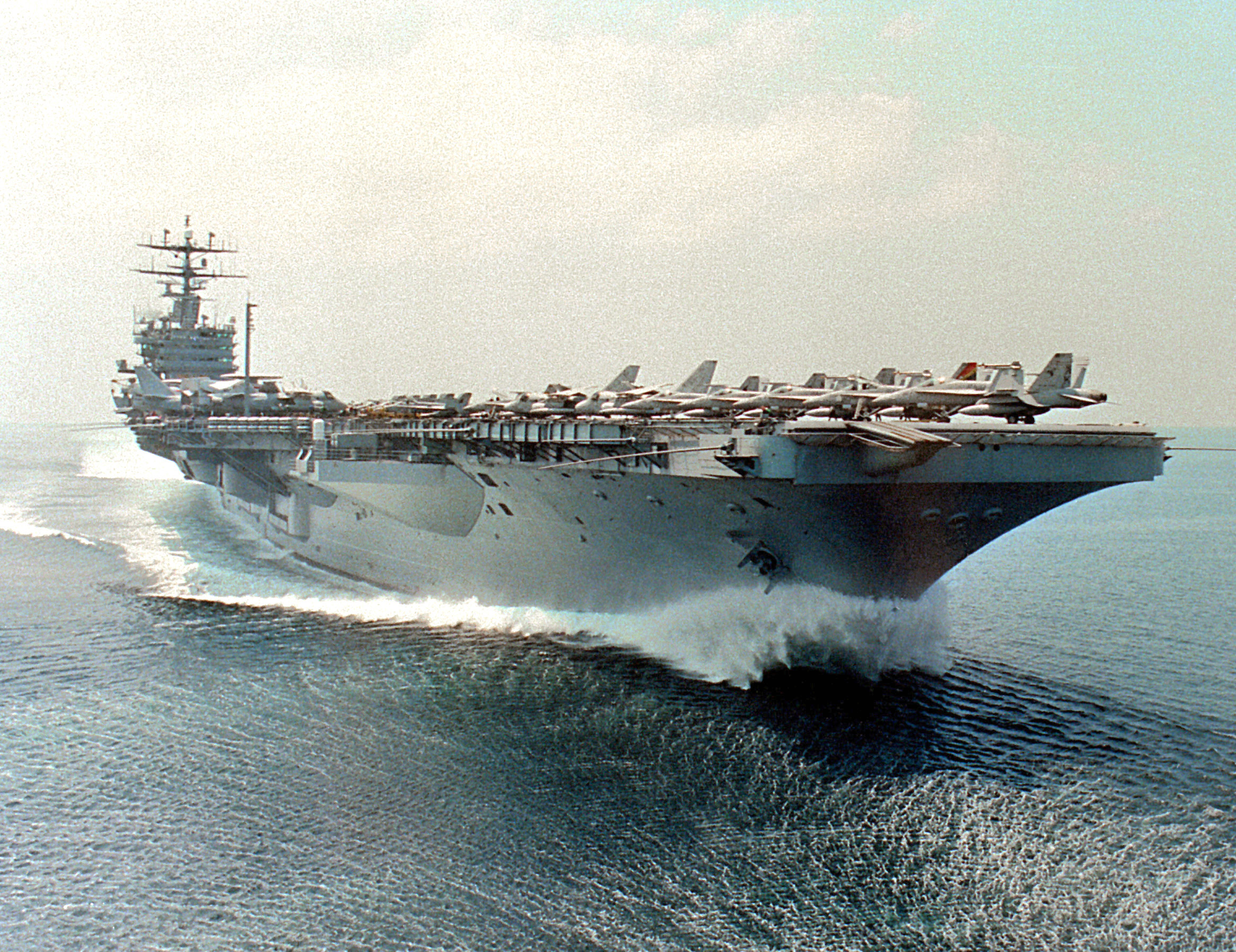 A starboard bow view of the nucelar-powered aircraft carrier USS CARL VINSON (CVN-70) underway at high speed off the coast of southern California.